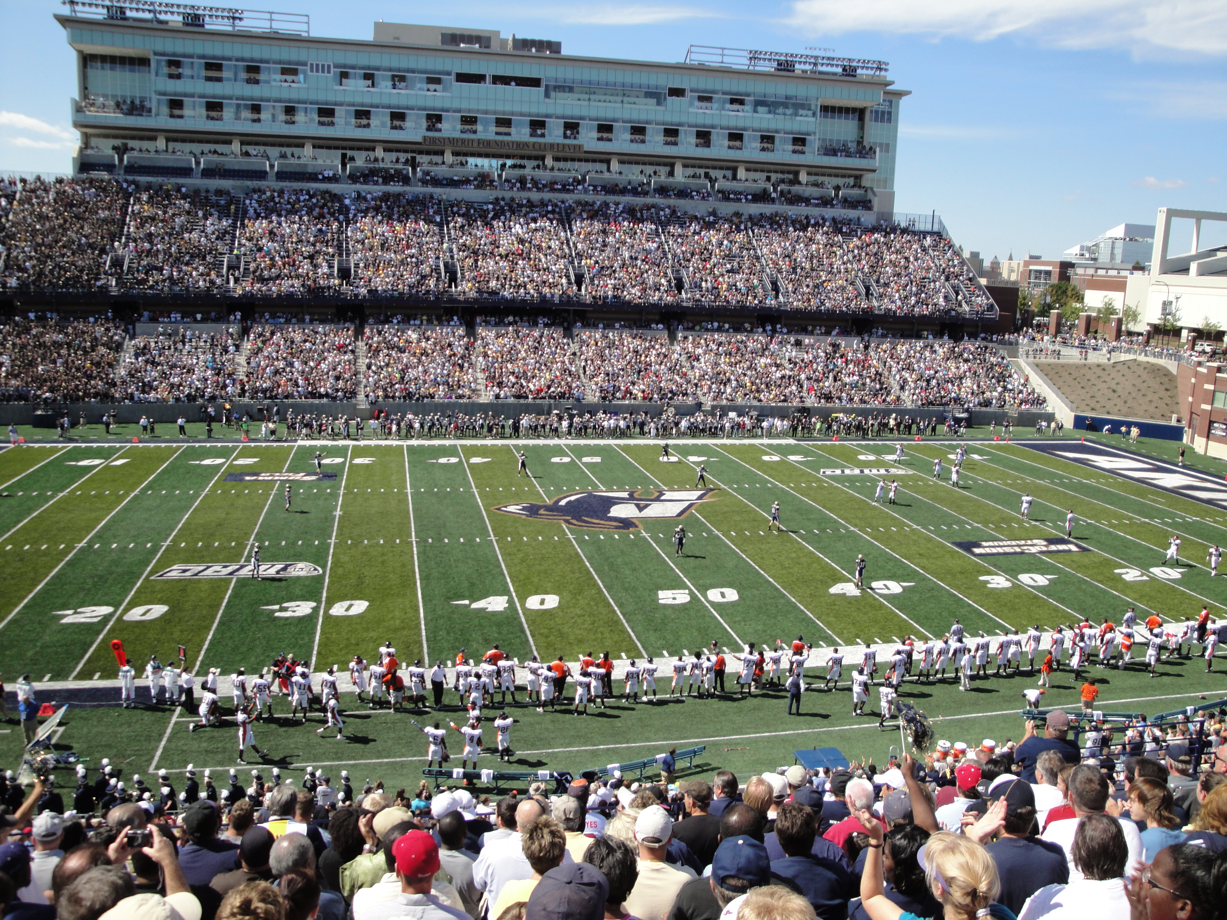 Image of the press tower at InfoCision Stadium at the University of Akron, in Akron, Ohio.